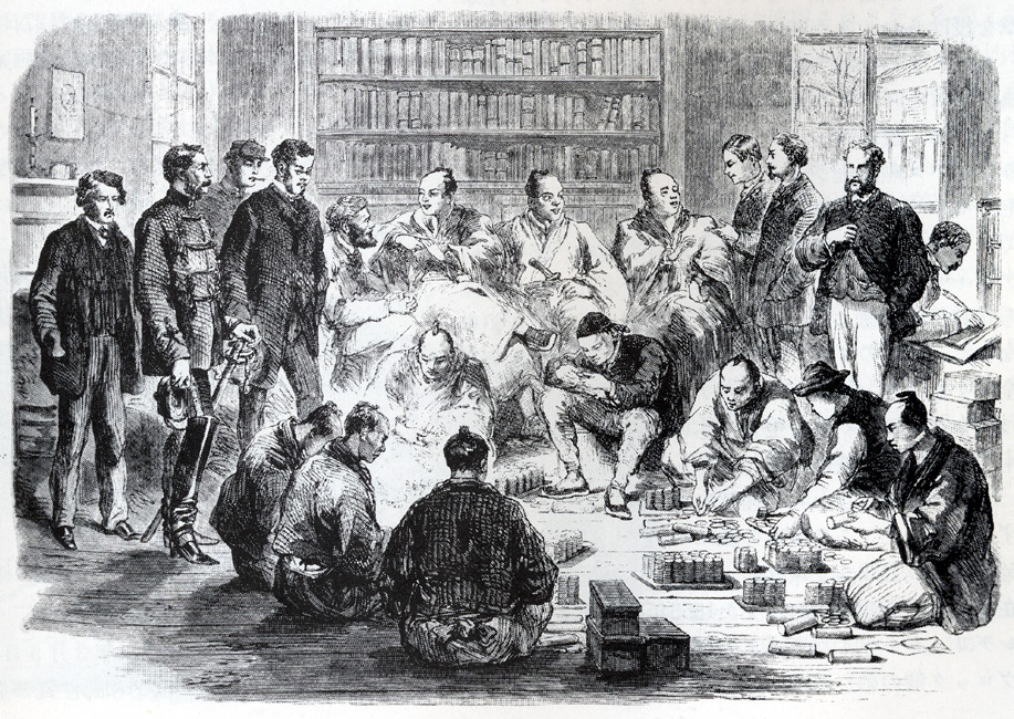 Payment of reparations by Satsuma.